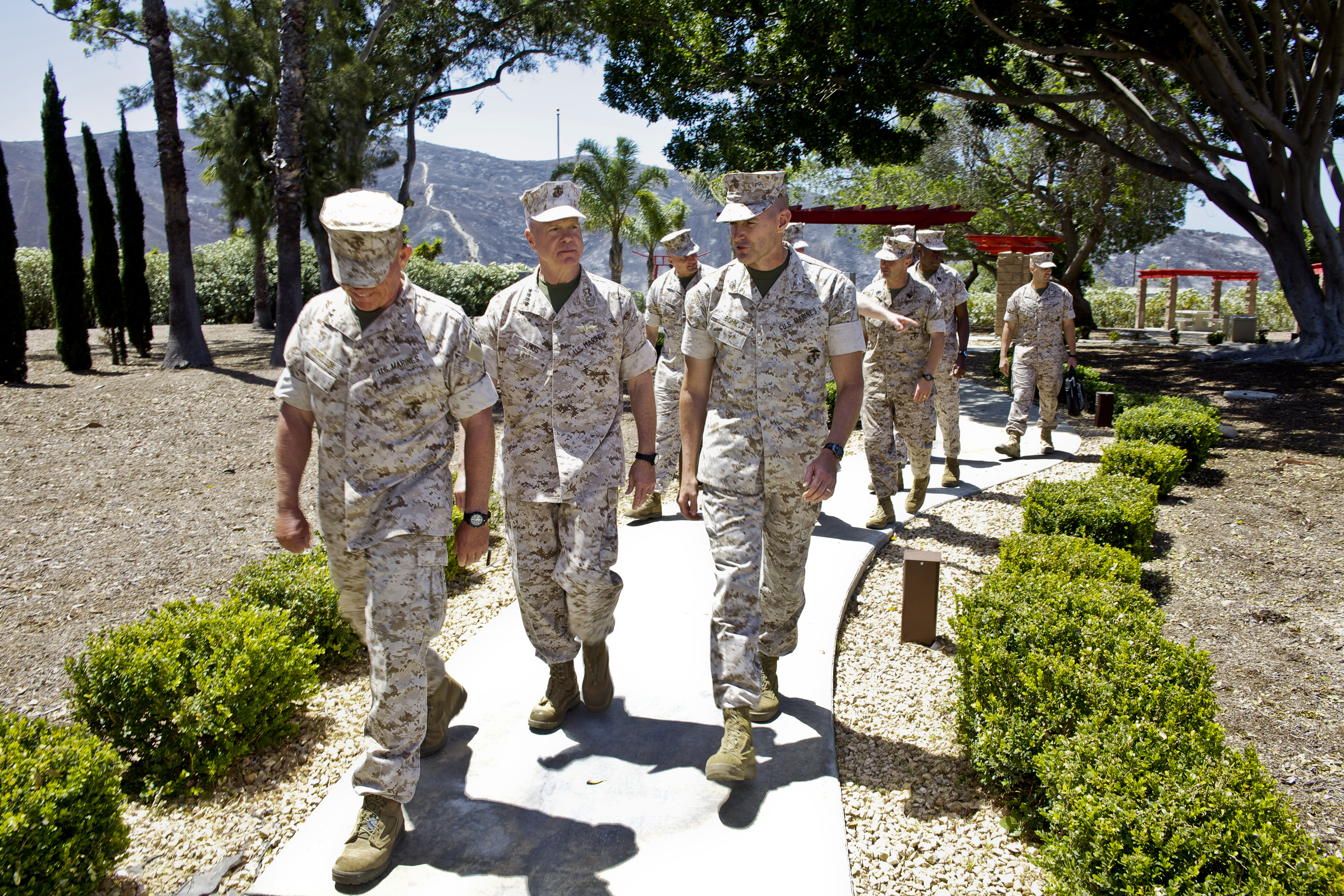 Camp Pendleton, CA - The 35th commandant of the Marine Corps, General James F. Amos, visits the 1st Battalion, 5th Marine Regiment Memorial during a tour of Marine Corps Air Station Camp Pendleton, CA, on May 19, 2014. (U.S. Marine Corps photo by Sgt. Mallory S. VanderSchans)(RELEASED)